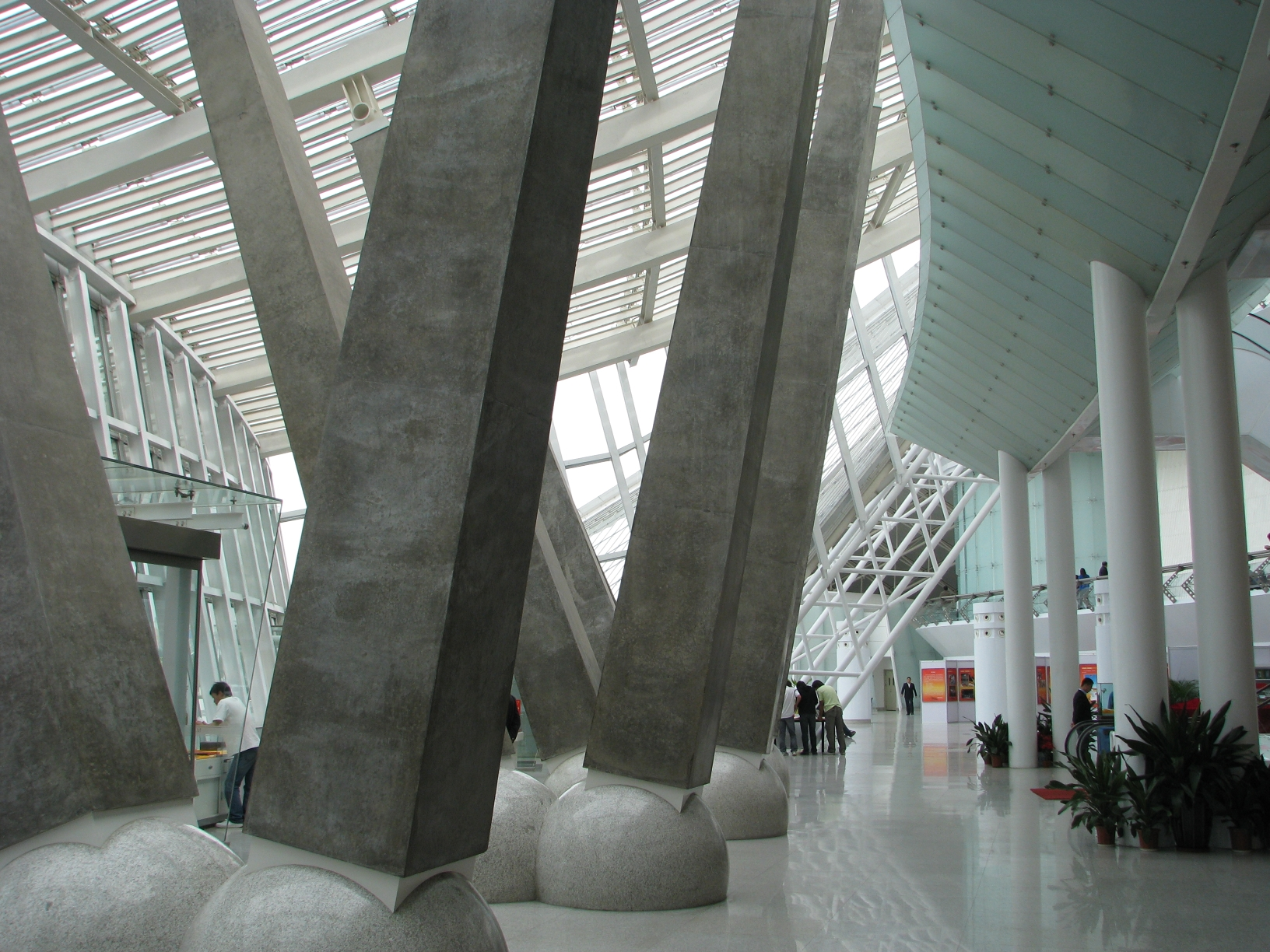 inside of Tianjin Museum, groundfloor (small, lowres)